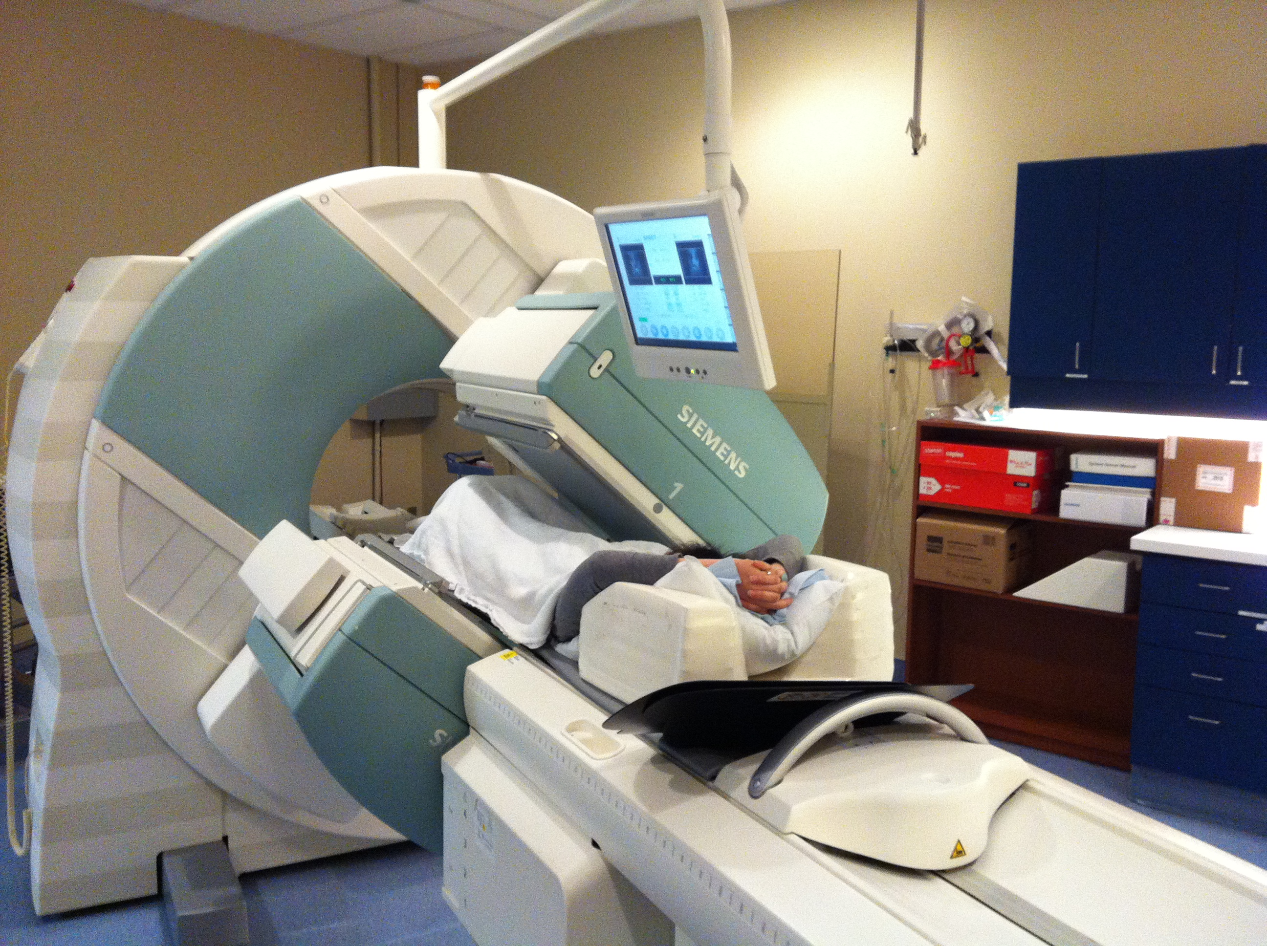 Siemens single-photon emission computed tomography machine in operation, doing a total body bone scan at the Credit Valley Hospital